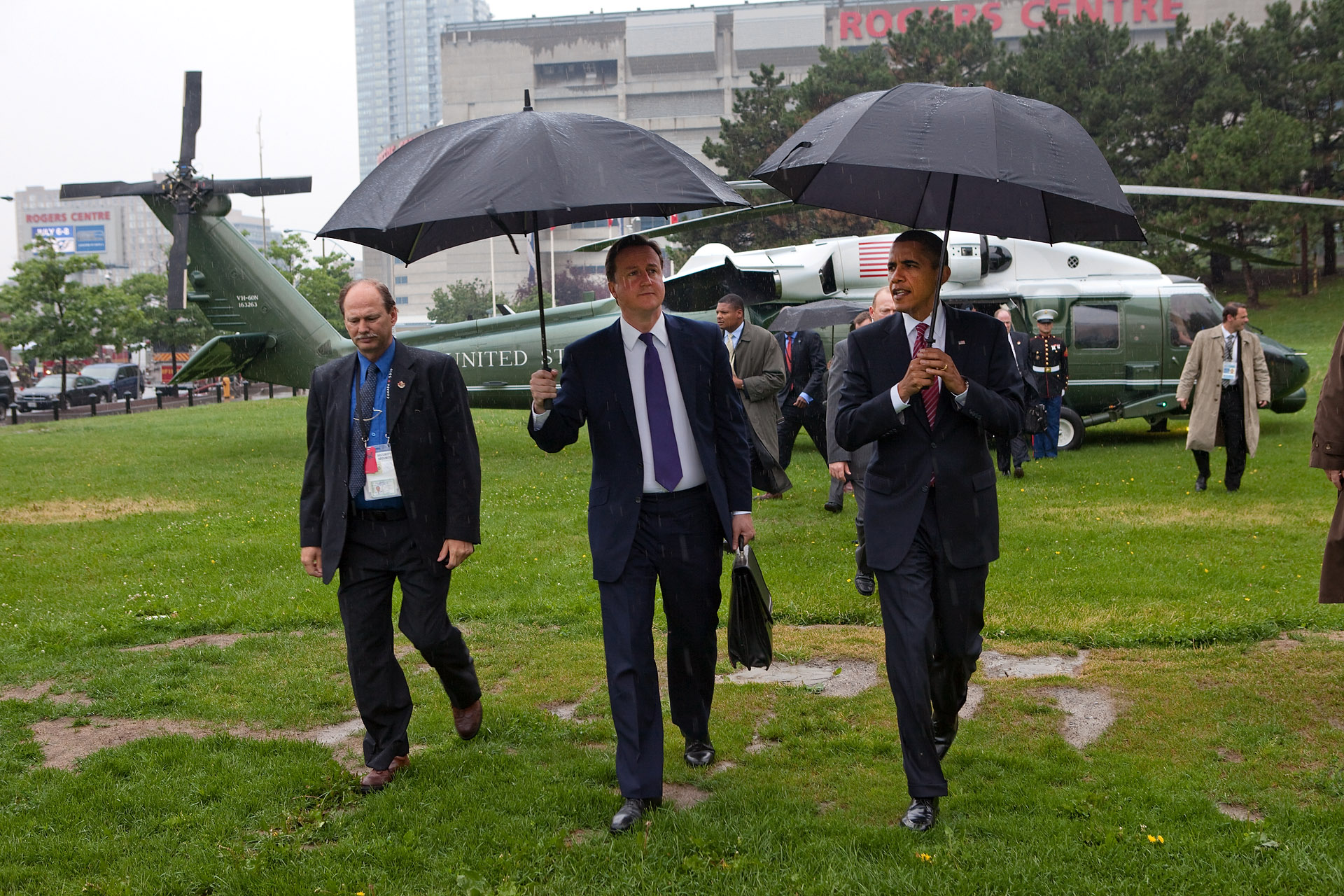 US President Barack Obama and UK Prime Minister David Cameron arrive together at the Metro Toronto Convention Centre for the G-20 summit in Toronto, June 26, 2010.